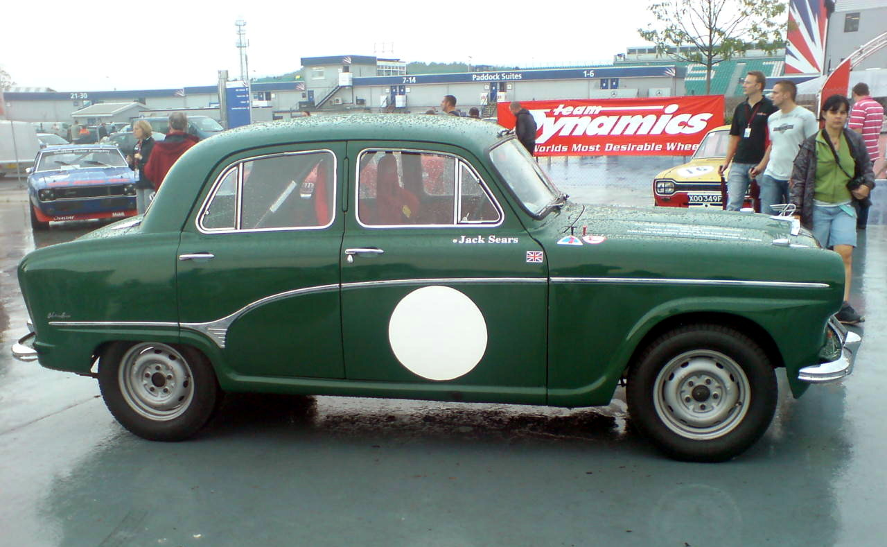 JS